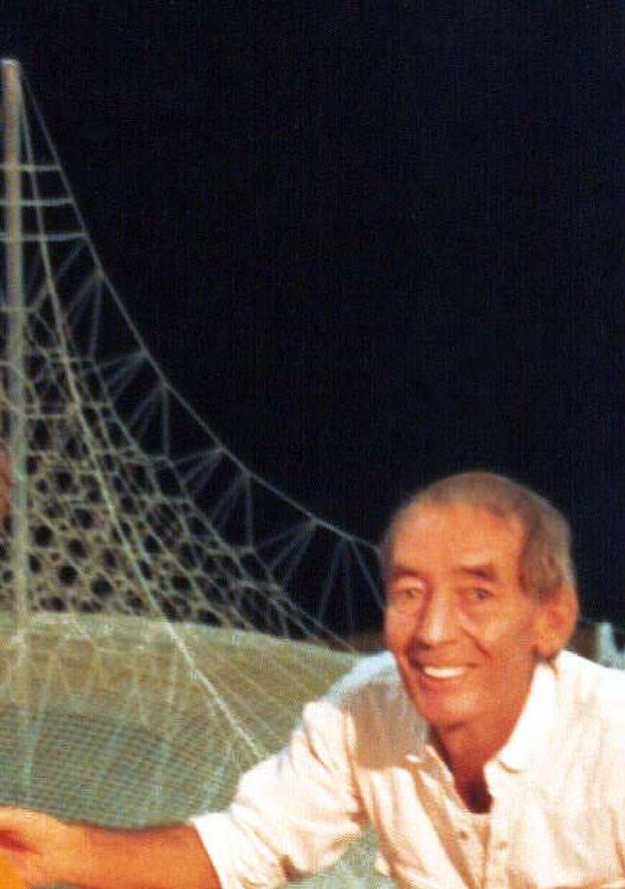 Conrad Roland Portrait